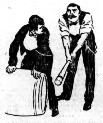 Oofty Goofty beaten by John L. Sullivan